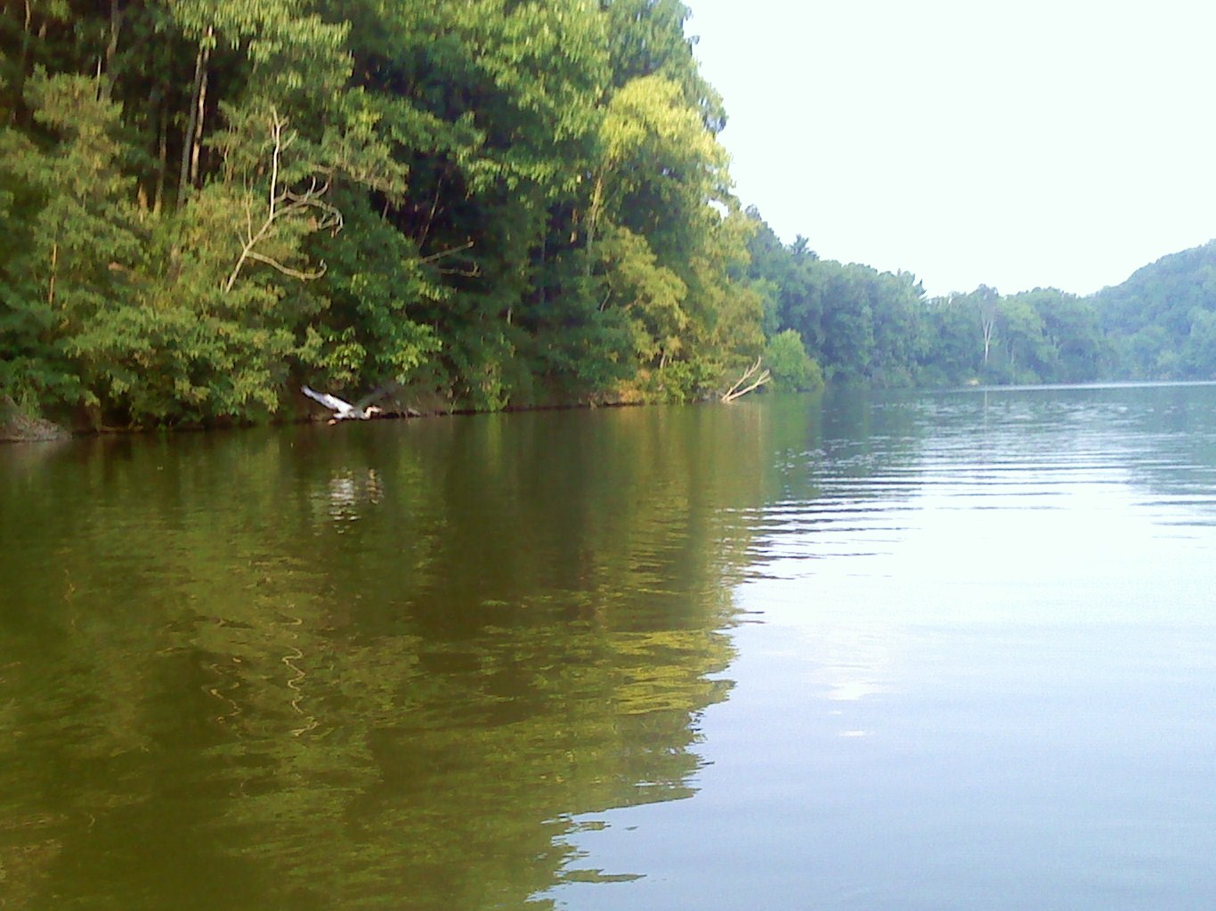 Raccoon lake at Raccoon Creek State Park west of Pittsburgh PA.